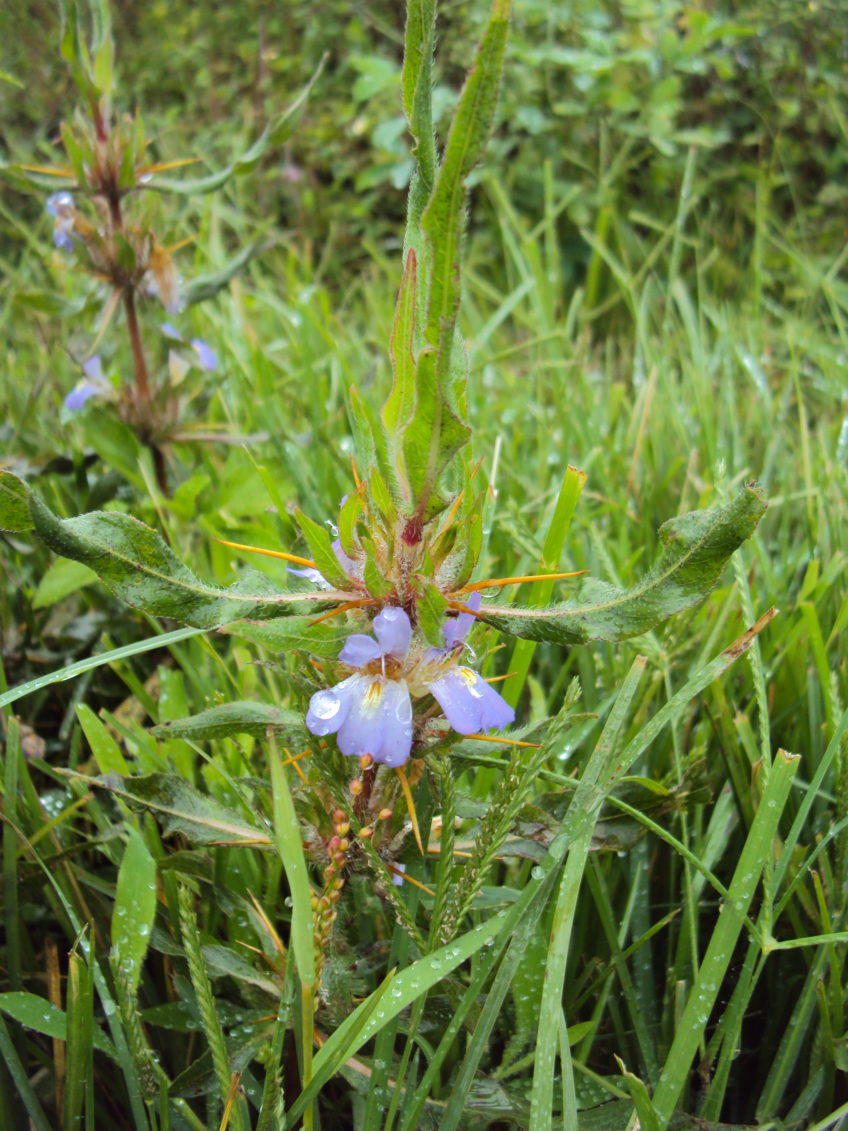 Hygrophila auriculata